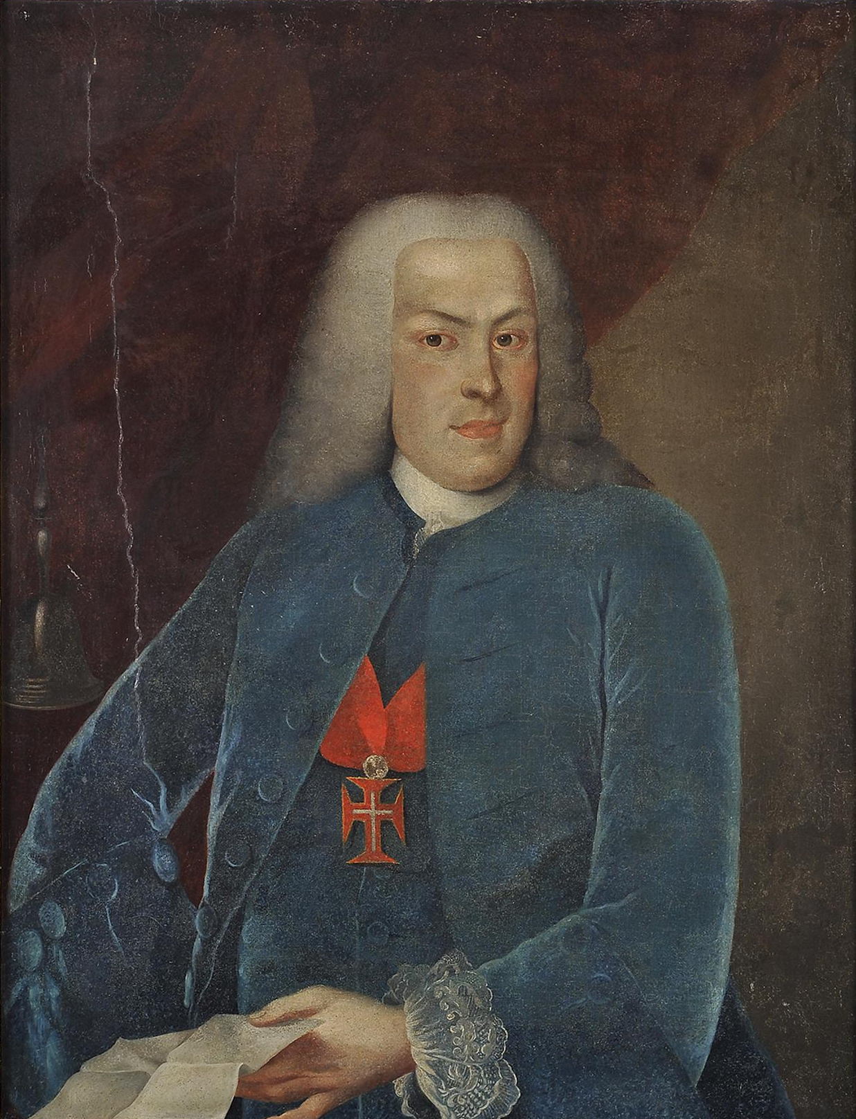 Portrait of the Marquis of Pombal (18th-century, Portuguese school)